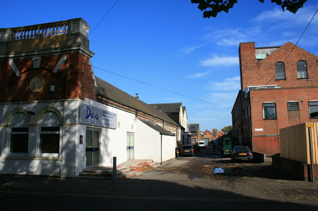 Humber Road Works Once home to the Humber car and bicycle works.